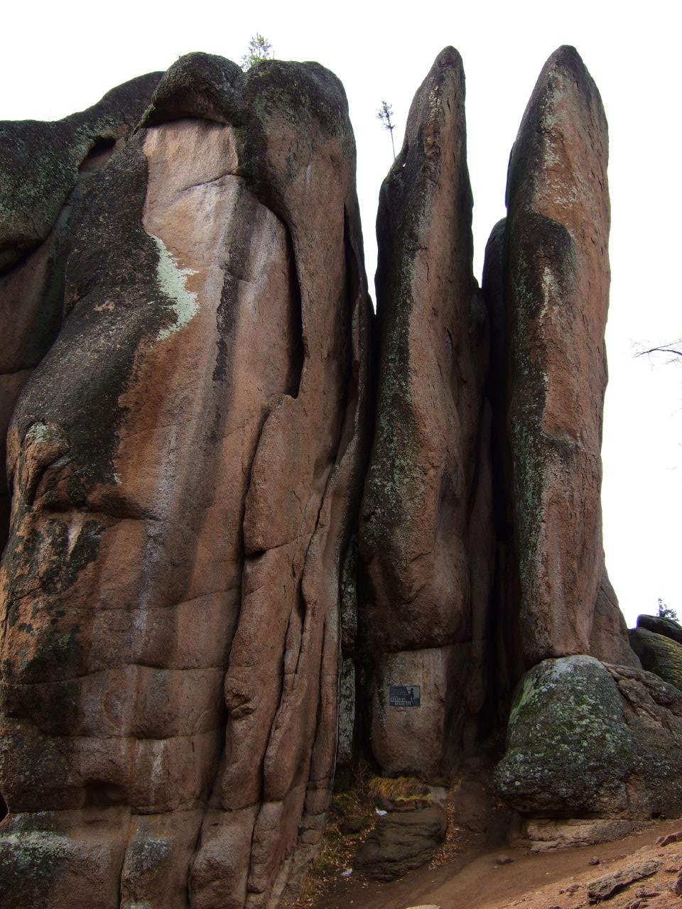 Stolby Nature Reserve, Krasnoyarsk, Russia